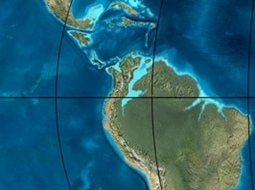 Paleogeography Colombia 35 Ma